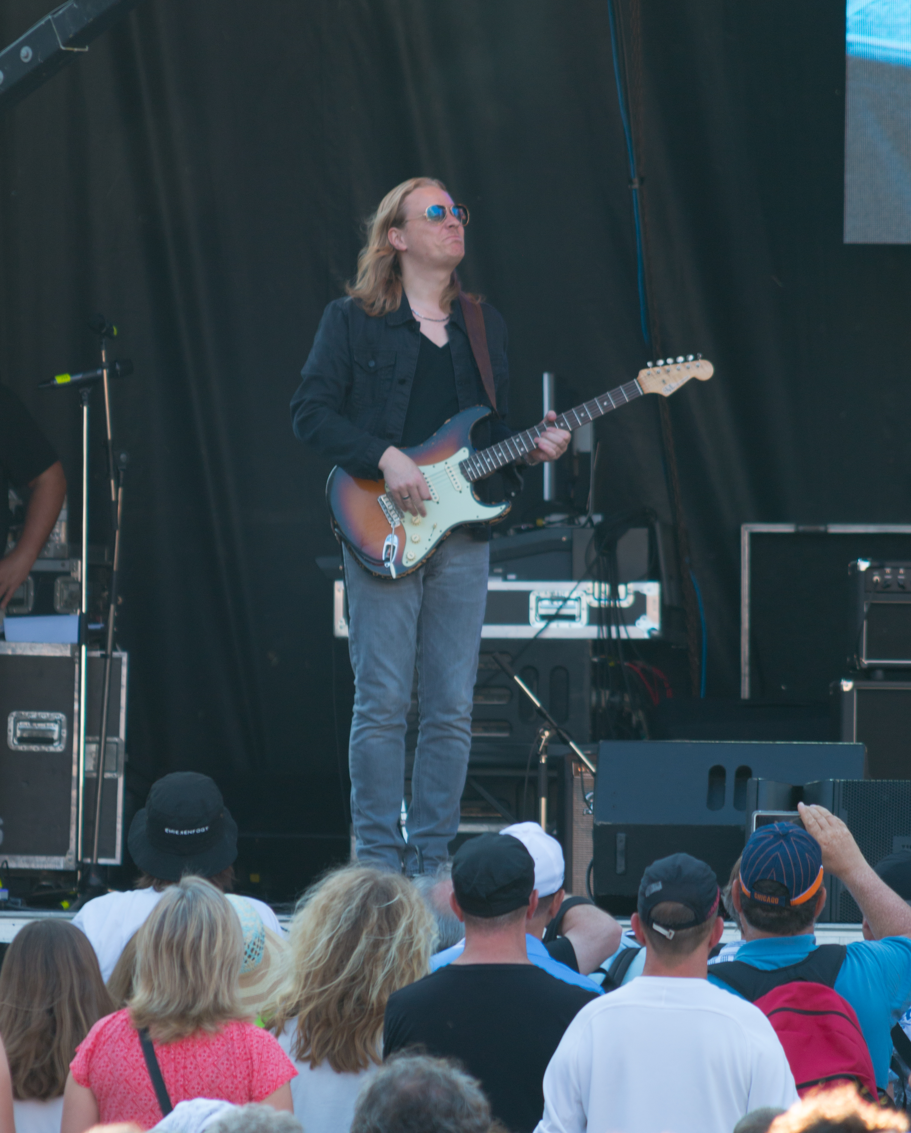 Matt Schofield performing at the Kitchener Blues Festival